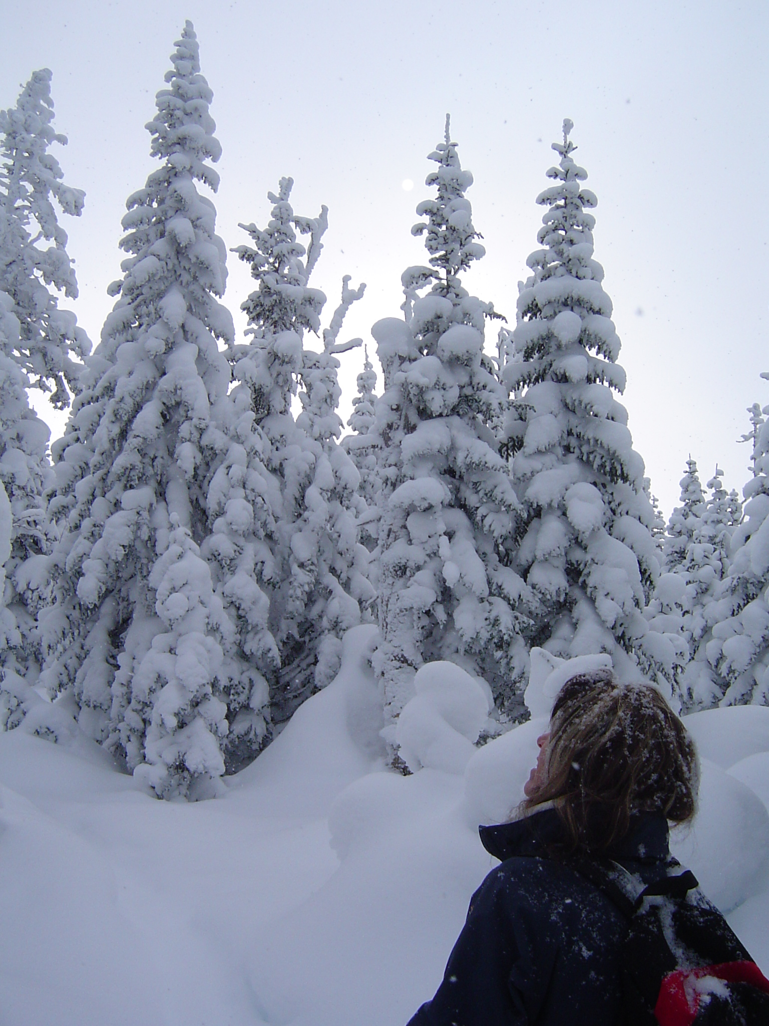 The 'Ghosts' at the top of Victor Tremblay mont.